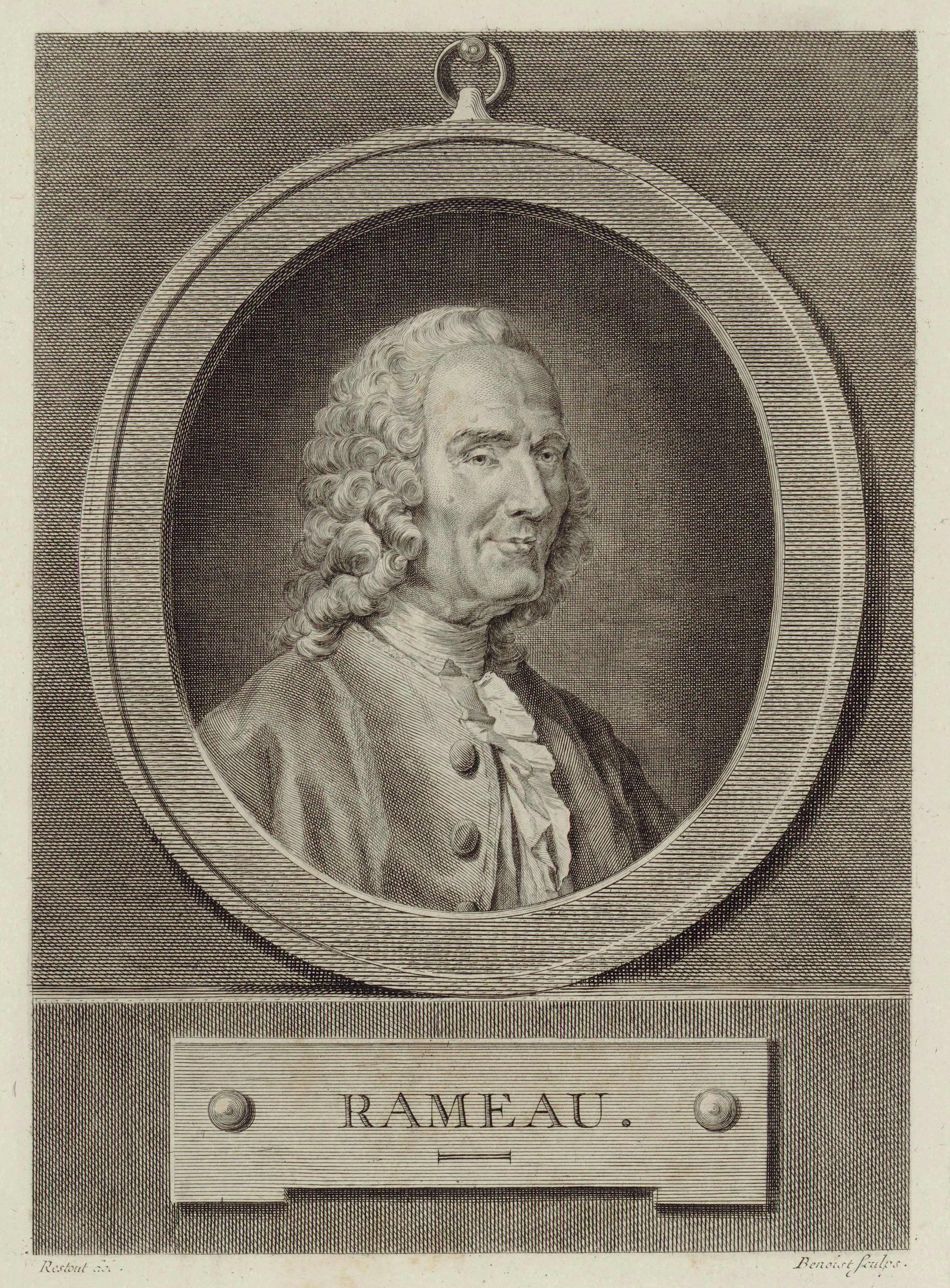 Depicted person: Jean-Philippe Rameau (1683–1764), French composer and music theorist of the Baroque era